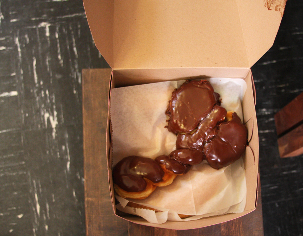 Voodoo Doughnut of Portland, Oregon, USA, produced this variant on the Boston creme donut. The "balls" are Boston creme filled.